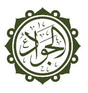 Shite imam